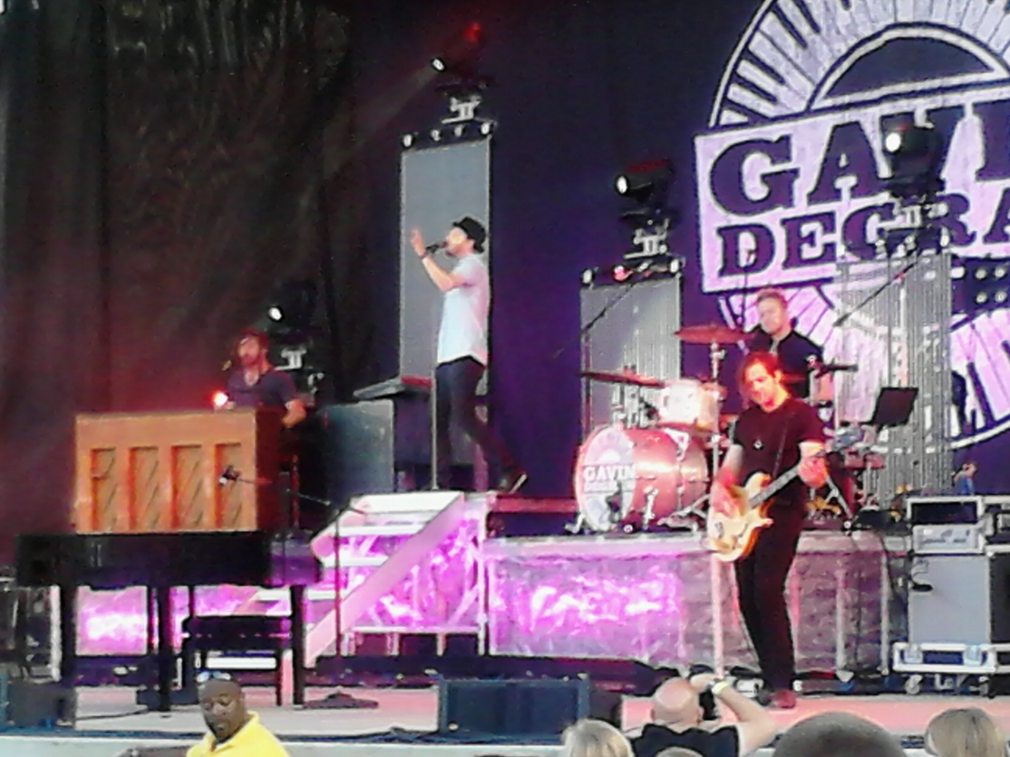 Gavin DeGraw performing at Time Warner Cable Amphitheatre in Charlotte, North Carolina.